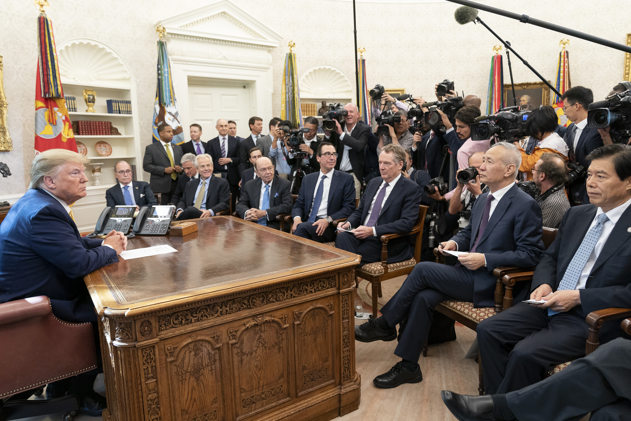 President Donald J. Trump speaks with reporters during his visit with Chinese Vice Premier Liu He Friday, Oct. 11, 2019, in the Oval Office of the White House, during a continuation of U.S.–China trade talks in Washington, D.C. (Official White House Photo by Shealah Craighead)